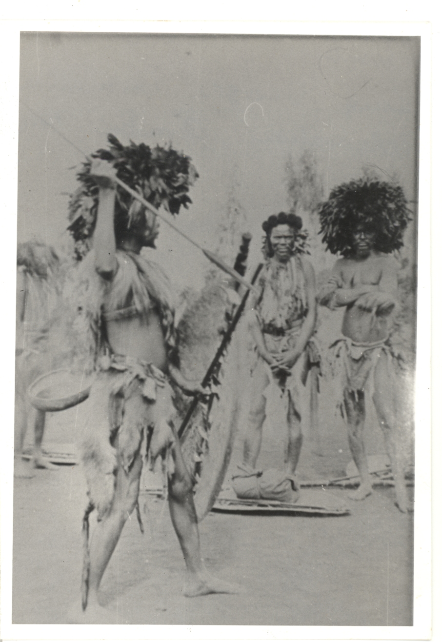 Mombera's Angoni at King Georges Coronation celebration, Zomba 1911